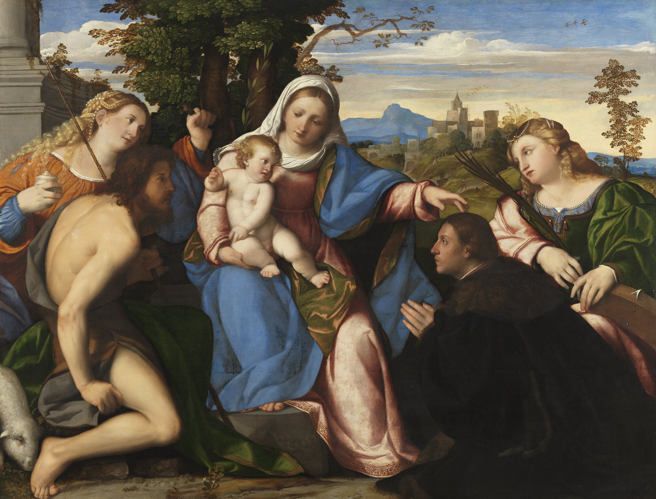 The Sacra conversazione is a composition in which the Virgin and Child are surrounded by saints of different historical eras, and on occasions, by donors (as in the present example). The kneeling figure leaning towards the Virgin, who draws the Christ Child’s attention to him, has been tentatively identified as Francesco Priuli. Priuli was one of Palma Vecchio’s patrons in Venice and was Procurator of the Republic in 1522.